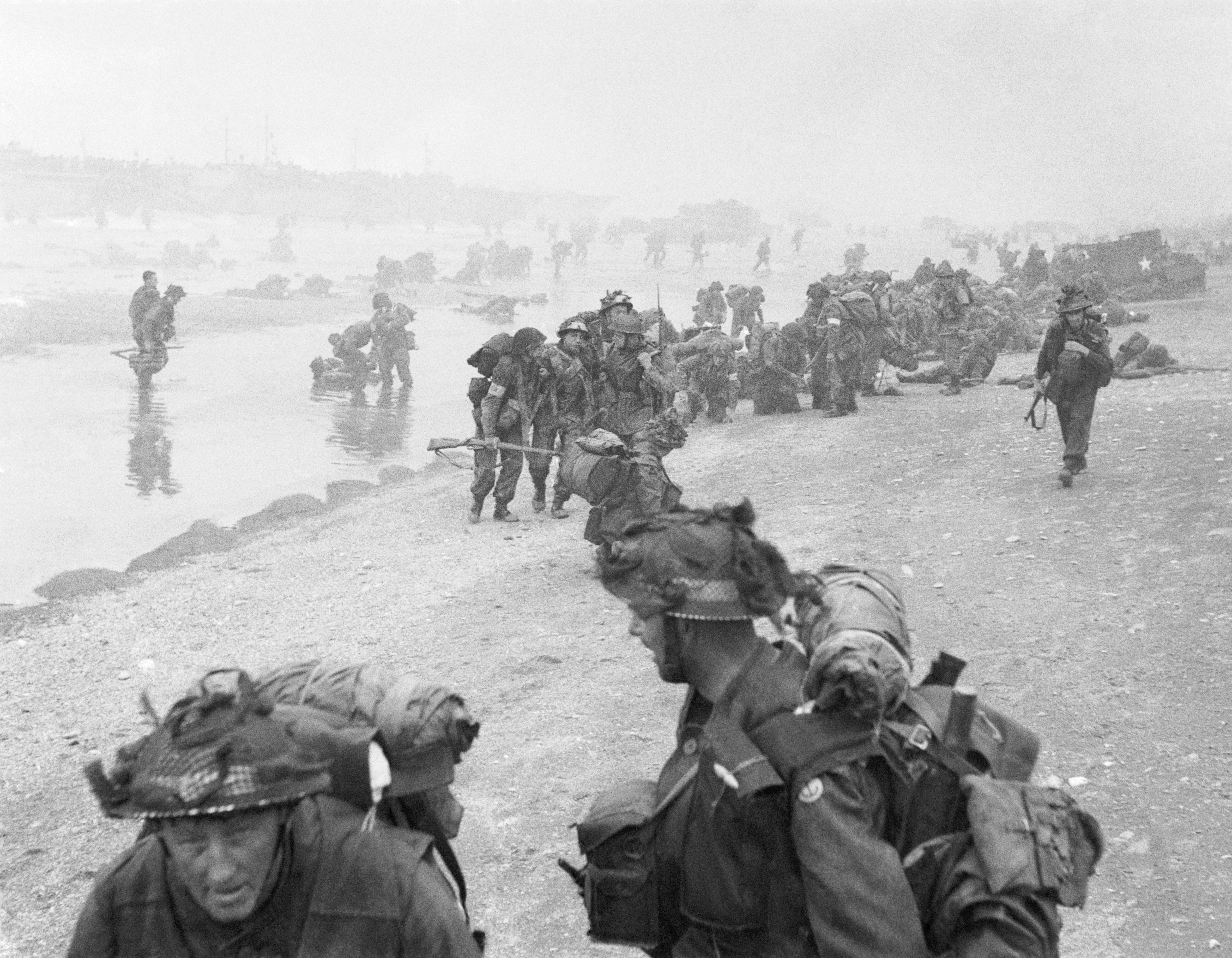 D-day - British Forces during the Invasion of Normandy 6 June 1944 Troops of 3rd Infantry Division on Queen Red beach, Sword area, circa 0845 hrs, 6 June 1944. In the foreground are sappers of 84 Field Company Royal Engineers, part of No.5 Beach Group, identified by the white bands around their helmets. Behind them, medical orderlies of 8 Field Ambulance, RAMC, can be seen assisting wounded men. In the background commandos of 1st Special Service Brigade can be seen disembarking from their LCI(S) landing craft.